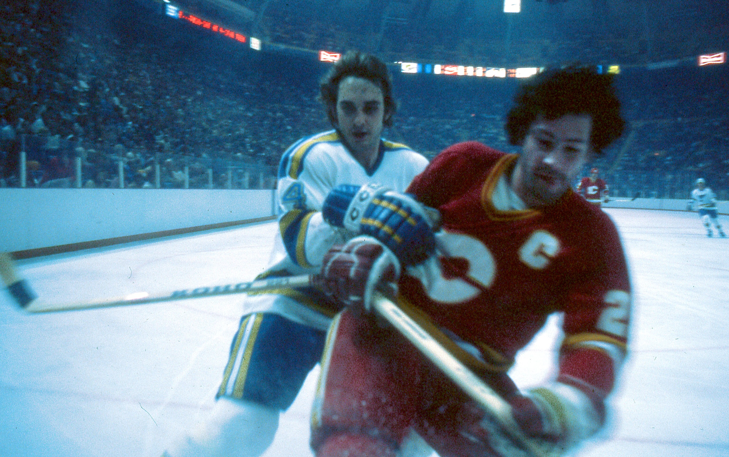 Brad Marsh competing for the Calgary Flames in a game at The Checkerdome in St. Louis on November 29, 1980